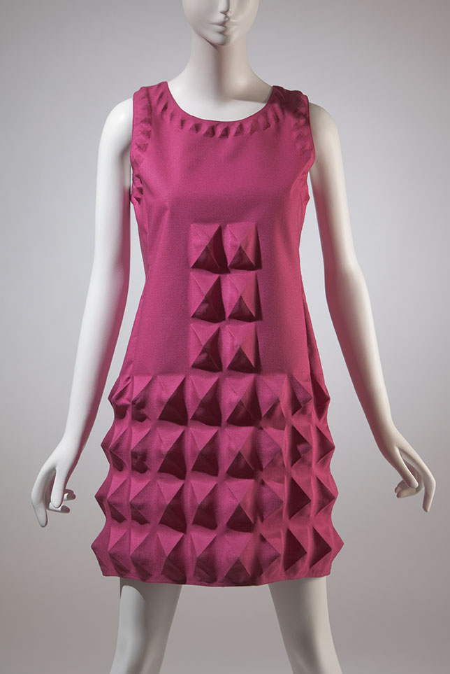 Dynel (Cardine) 1968, France Gift of Lauren Bacall, 70.62.1 Lauren Bacall: The Look Photograph by Eileen Costa The Museum at FIT